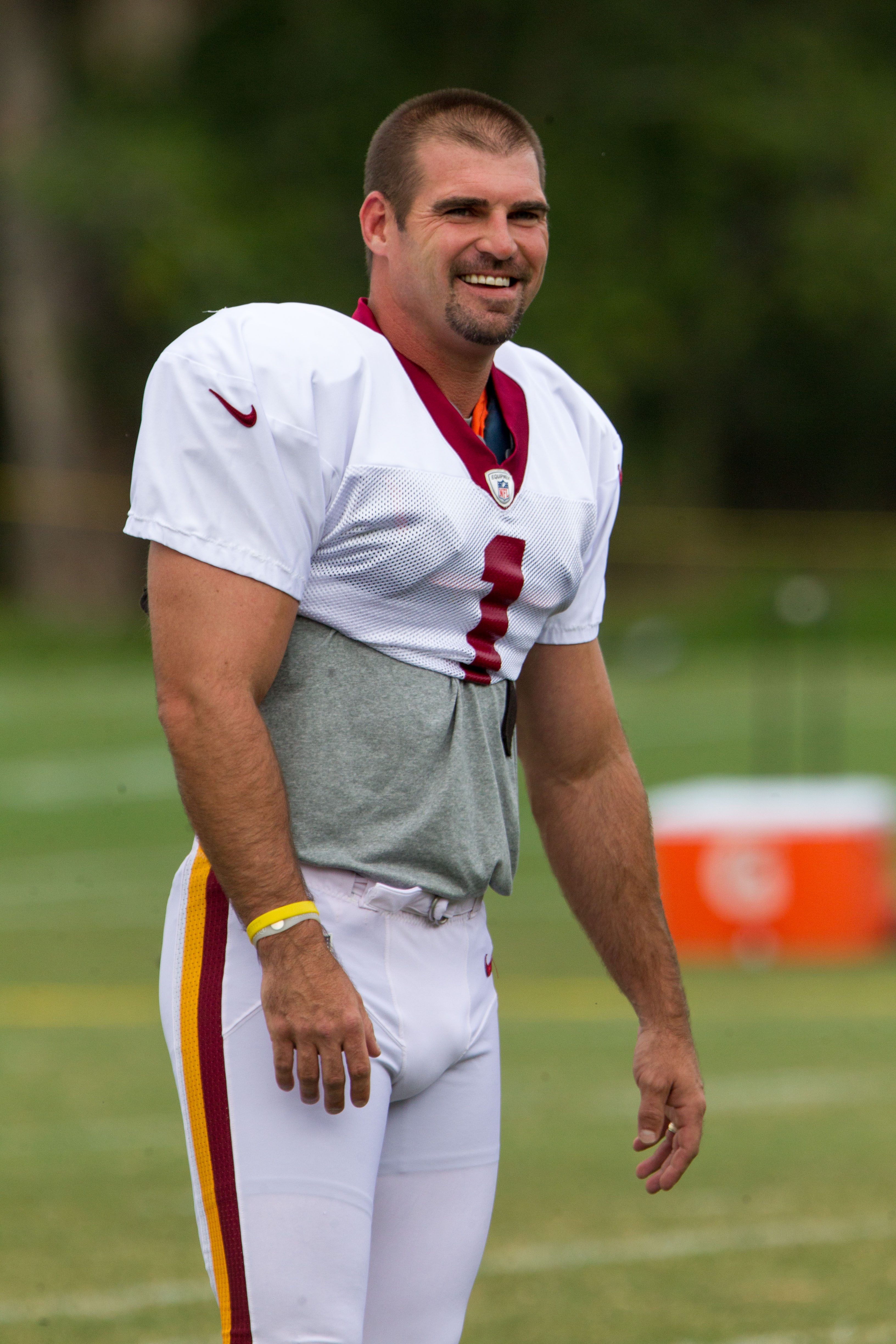 Neil Rackers at Washington Redskins Training Camp July 31, 2012